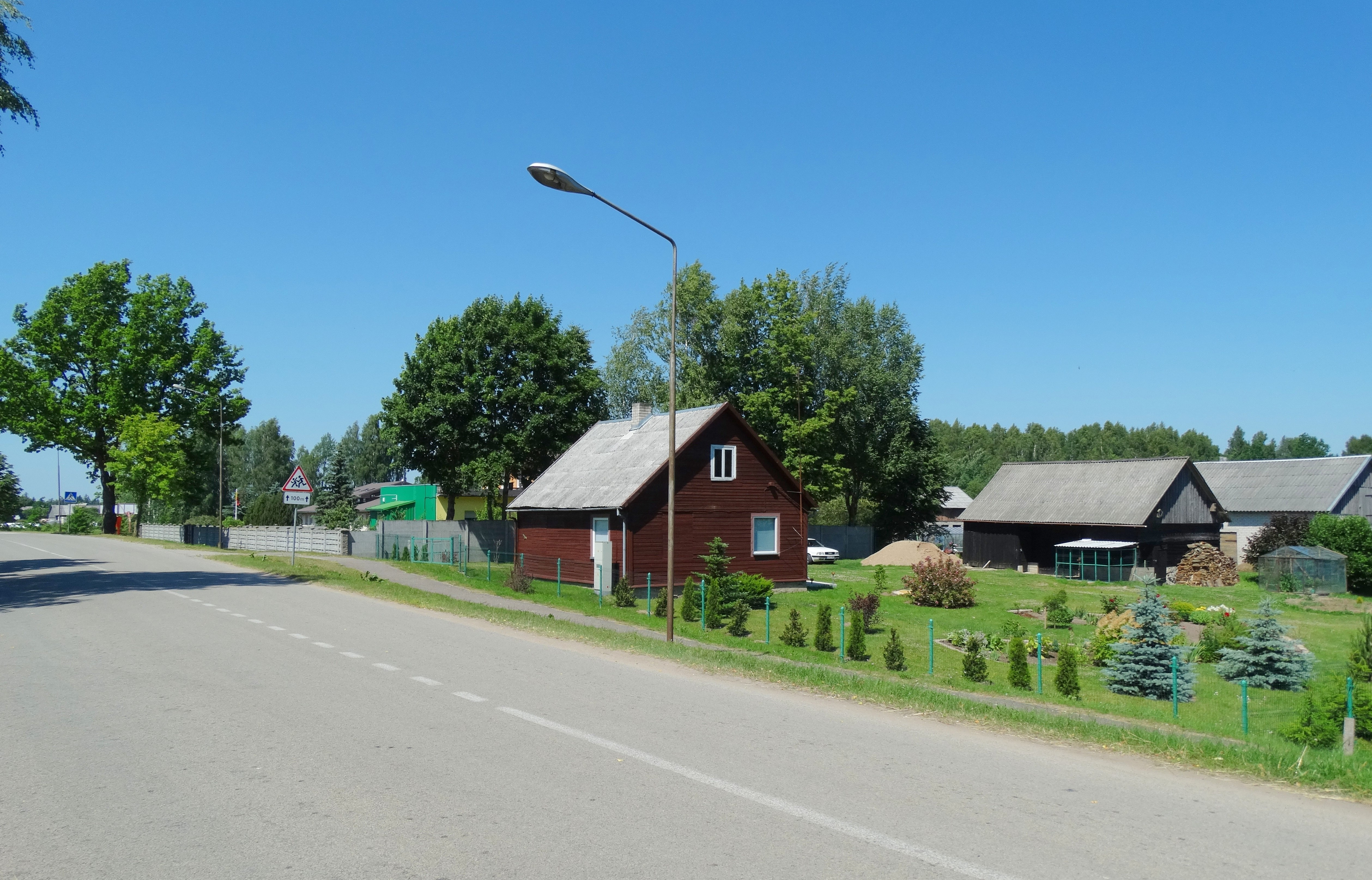 Daugėdai, Rietavas Municipality, Lithuania